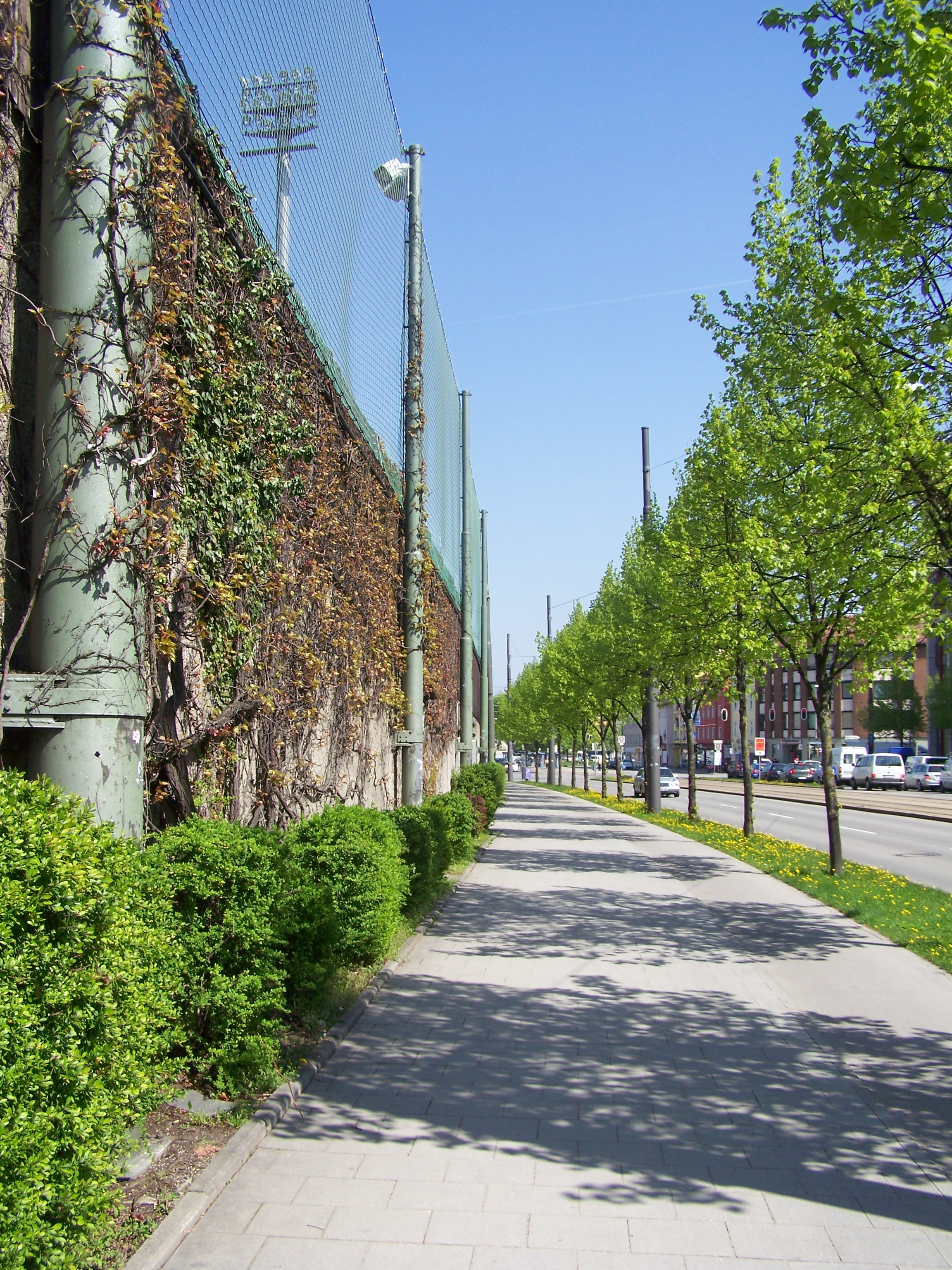 east side of the Sechzgerstadion in Munich